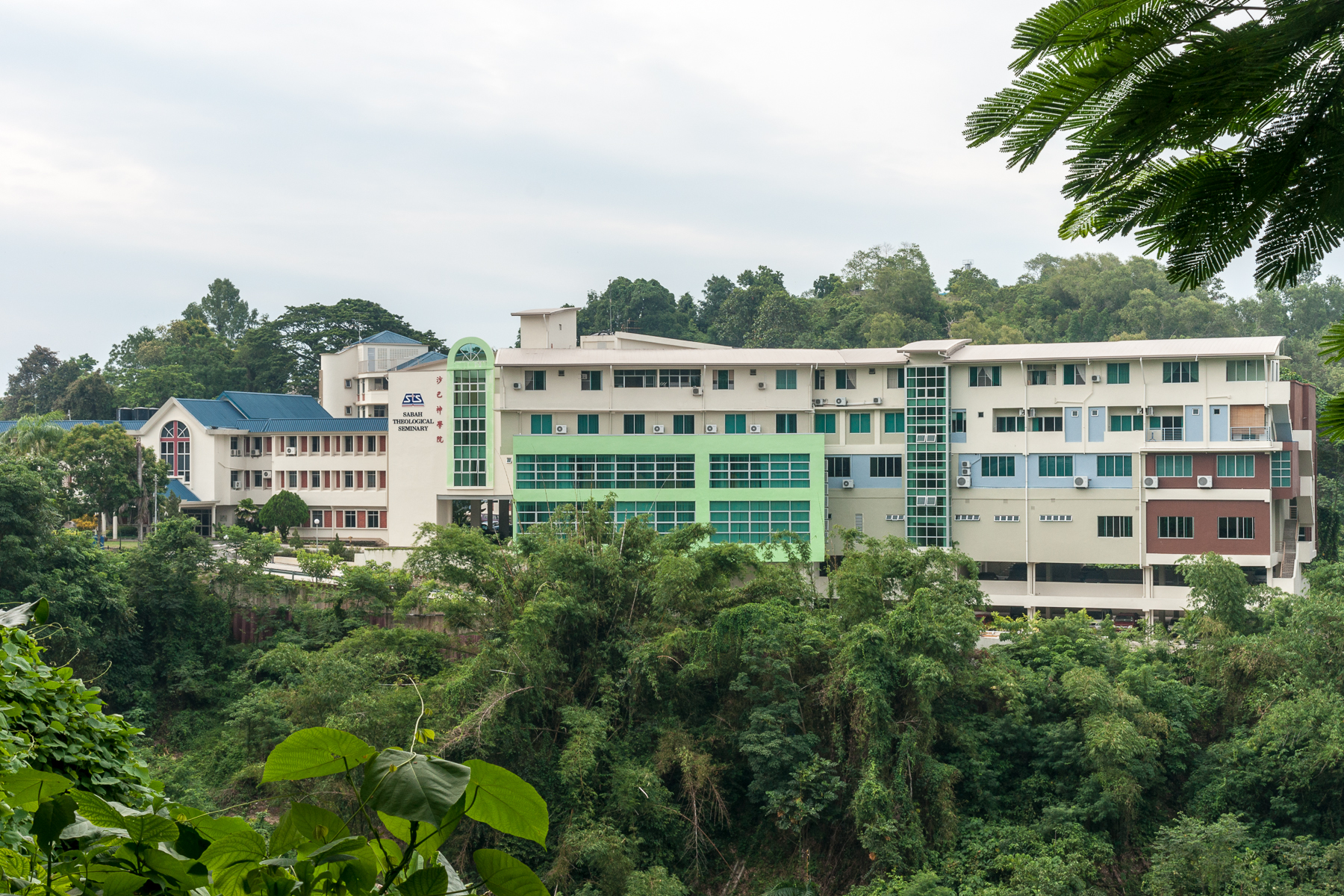 Kota Kinabalu, Sabah: Sabah Theological Seminar (Seminari Teologi Sabah) on Signal Hill